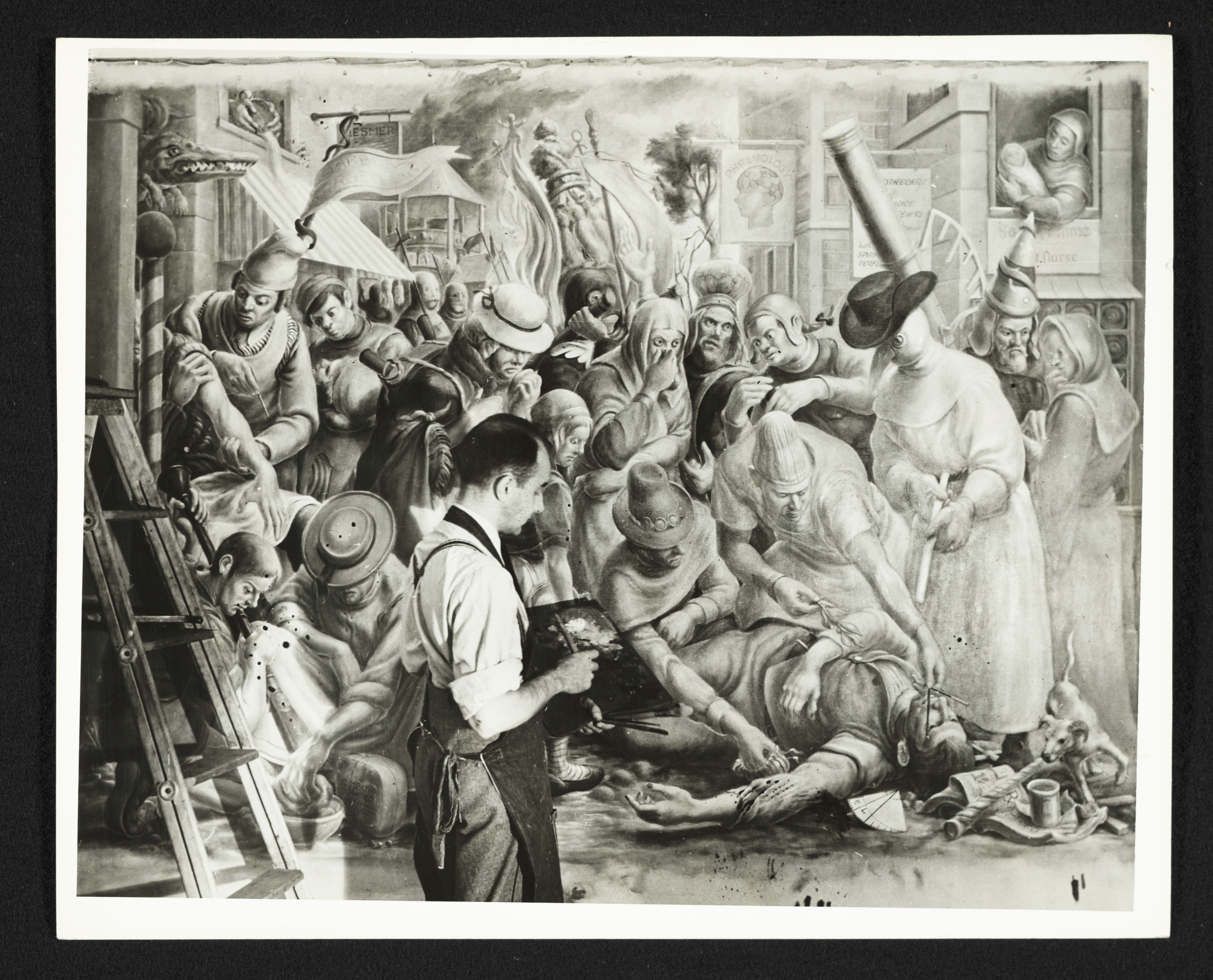 Palmer painting a mural. On Verso; On the left: Title:Mural. On the right: Location, Artists' Homes', Date: Aug. 7- 36, Negative No. 136Y-l, Photographer: Herman Accompaning paper reads: WIlliam C. Palmer Born in 1906, Des Moines, Iowa. Studied at Art Students League, Ecoleves Beaux Arts De Fontainbleau, France; Taught privately; did a mural for Queens Co. General Hospital, while on PWAP, from July to Oct., 1934. Studied fresco, painting under Baudoun in 1927. Private instructor in techincal facts on painting, chemistry of color, method, oil in tempera and Florentine guilding.